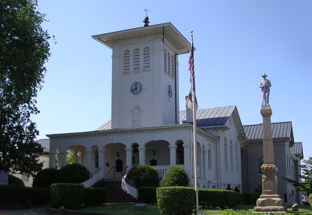 The courthouse in Orange County, Virginia with the overhead power lines edited out for aesthetic reasons.